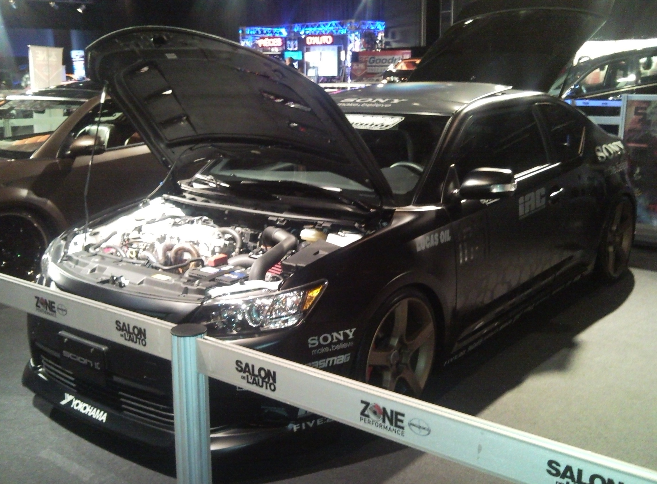 2011-present Scion tC photographed in Montreal, Quebec, Canada at the 2012 Montreal International Auto Show